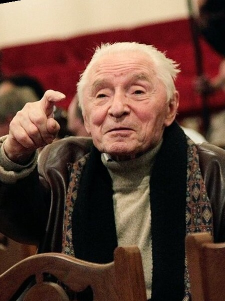 choreographer Yuri Grigorovich in 2011